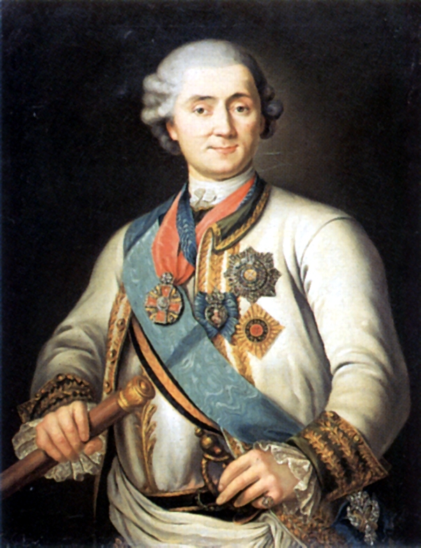 Portrait of Alexei Grigoryevich Orlov (1737-1809)